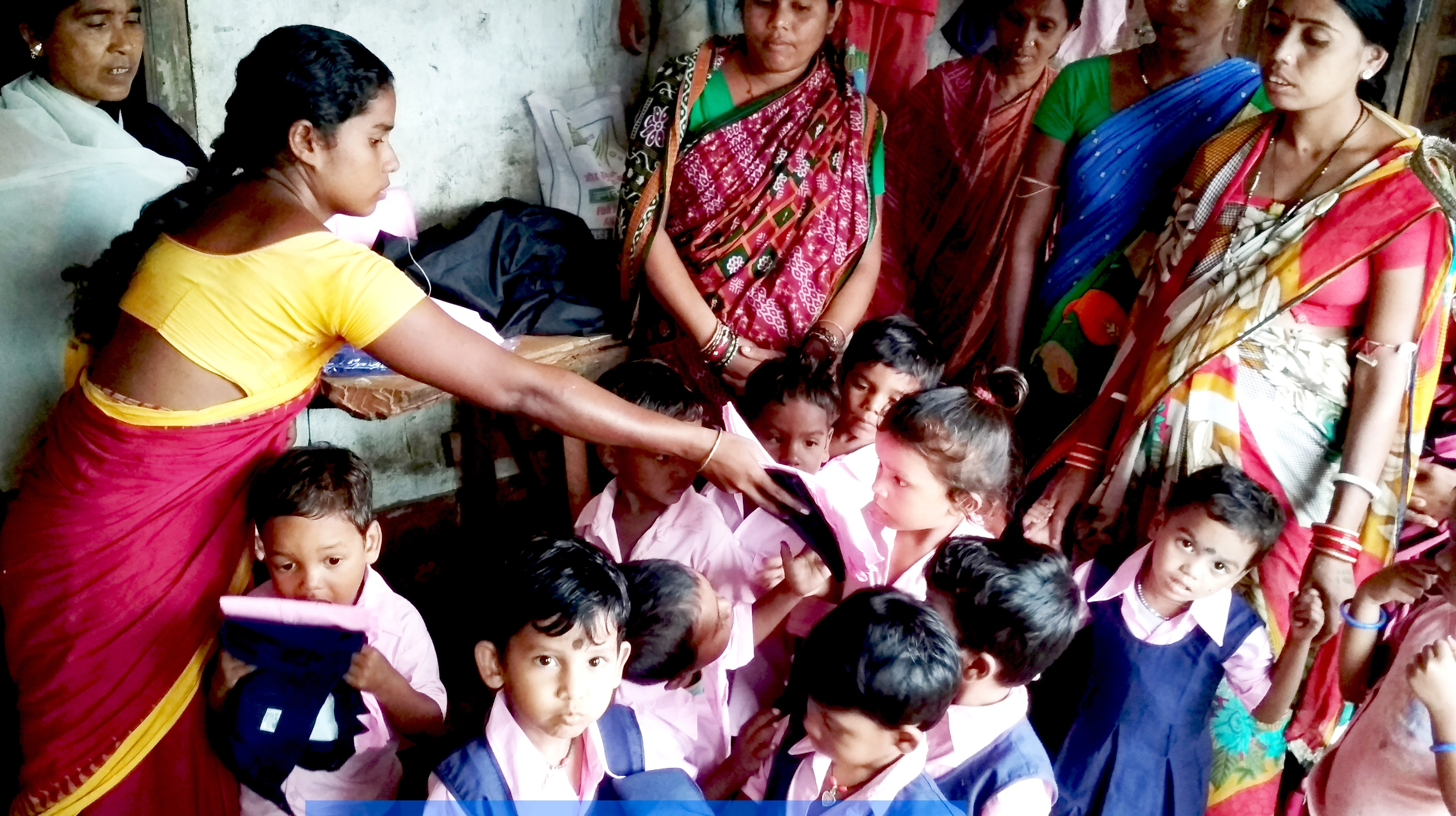 This a Anganwadi kendra in Odisha Barihapukhapani 768036, AWW distributing Free Dresses to childrens